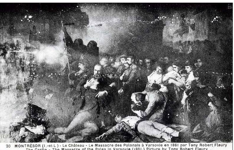 "The massacre of the Poles in Varsovia (1861)" by Tony Robert-Fleury